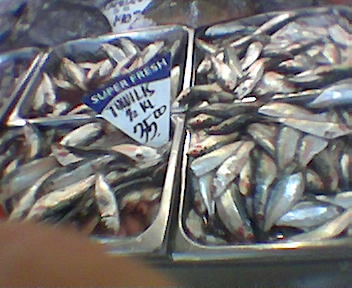 Description: This is a bin of Sardinella tawilis, an endangered freshwater fish endemic to the Philippines, being sold in a supermarket in Metro Manila. Author: Iyan Sommerset Uploader: User:Shrumster Date: The image was taken on November 11, 2006. Location: a supermarket in Metro Manila, Philippines Camera: Nokia 7250